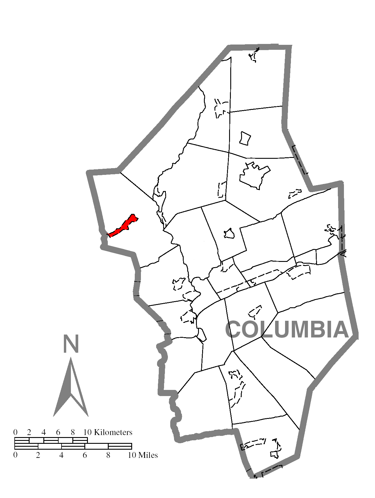 A map of Columbia County showing Jerseytown, Pennsylvania (alternate) highlighted on the map.